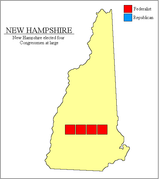 Congressional district map of New Hampshire for the 5th Congress, 1796